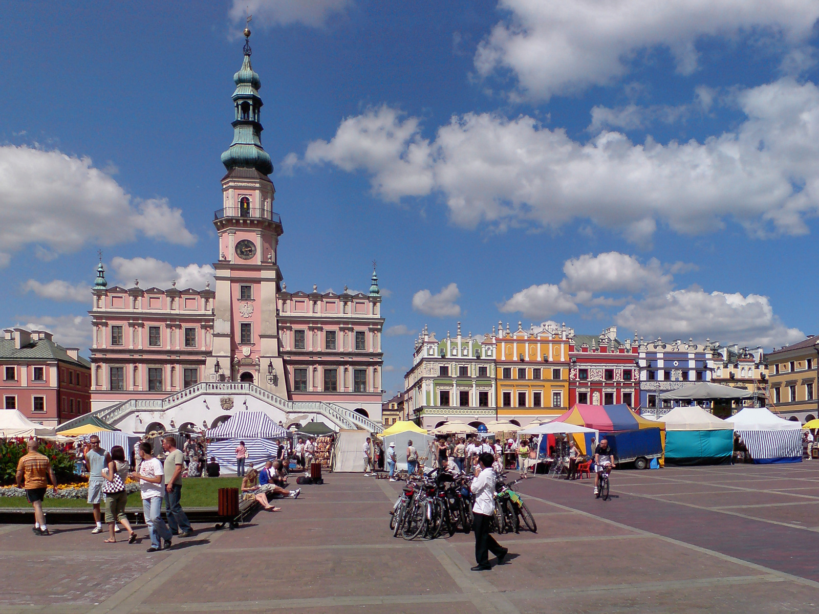 Town Hall in Zamość, image created with hugin from 3 photos taken with SE k800i mobile phone